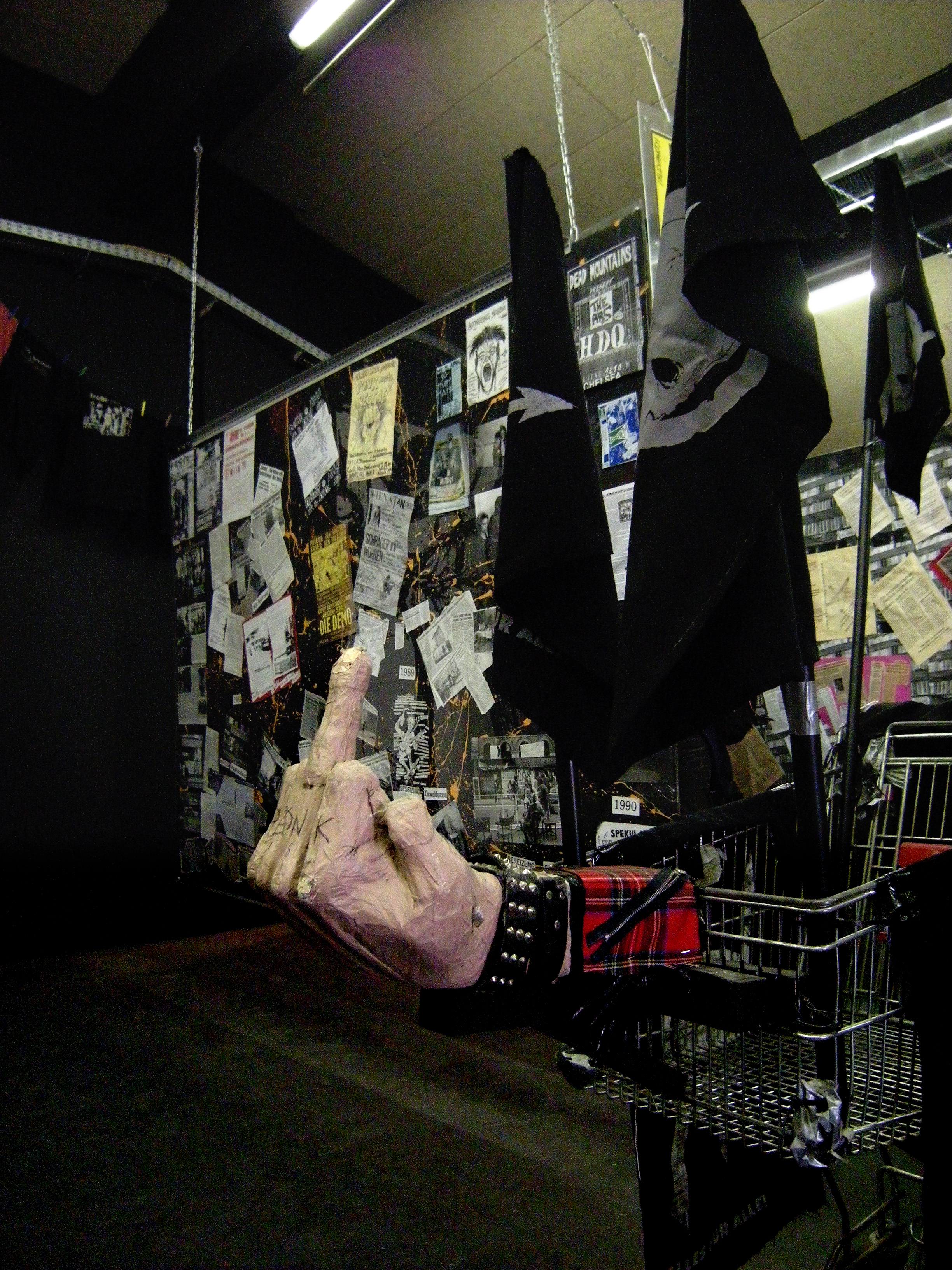 Punk_in_Vienna retrospective exhibit, opened on 2010-09-13, in Vienna, Austria.